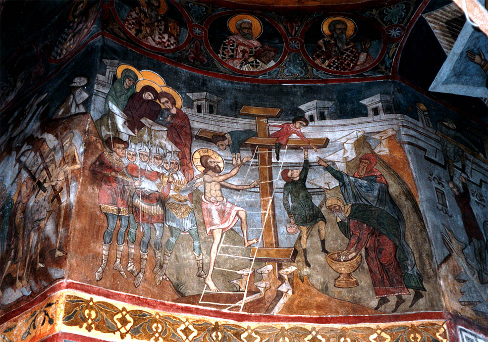 St. John the New Monastery in Suceava - St. George Church (interior painting of Jesus Christ).